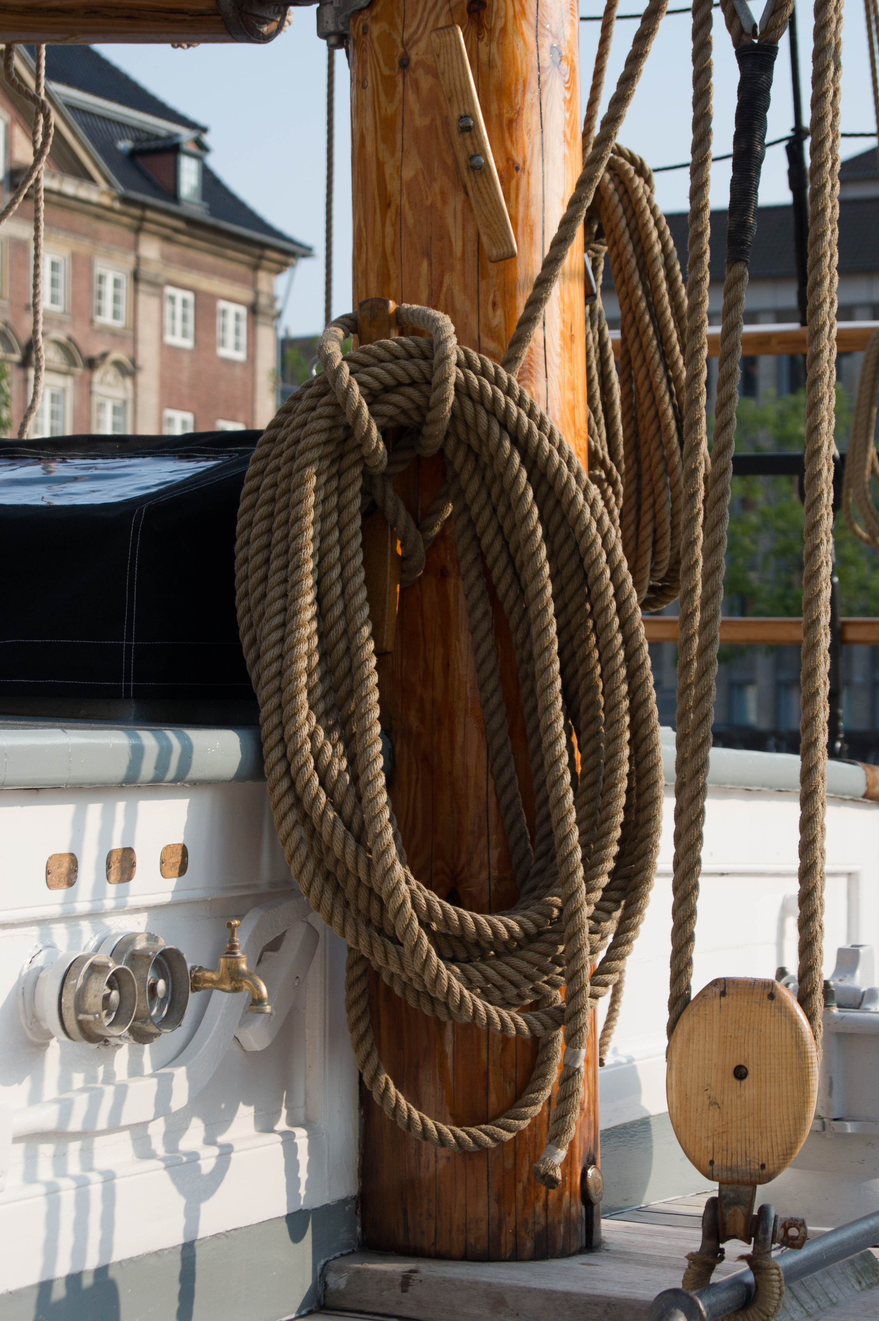 Mast and rope, old boat in the harboor of Copenhagen.